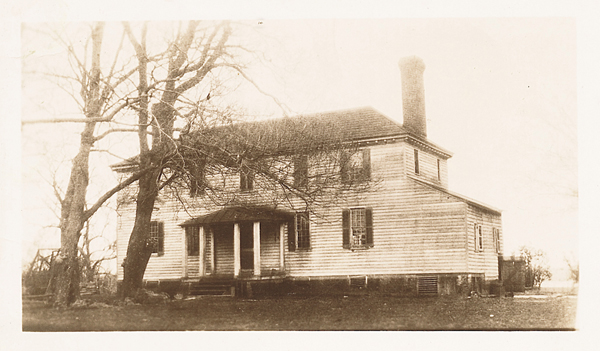 Chestnut Grove plantation where Martha Washington wife of George Washington, first President of the the United States was born.